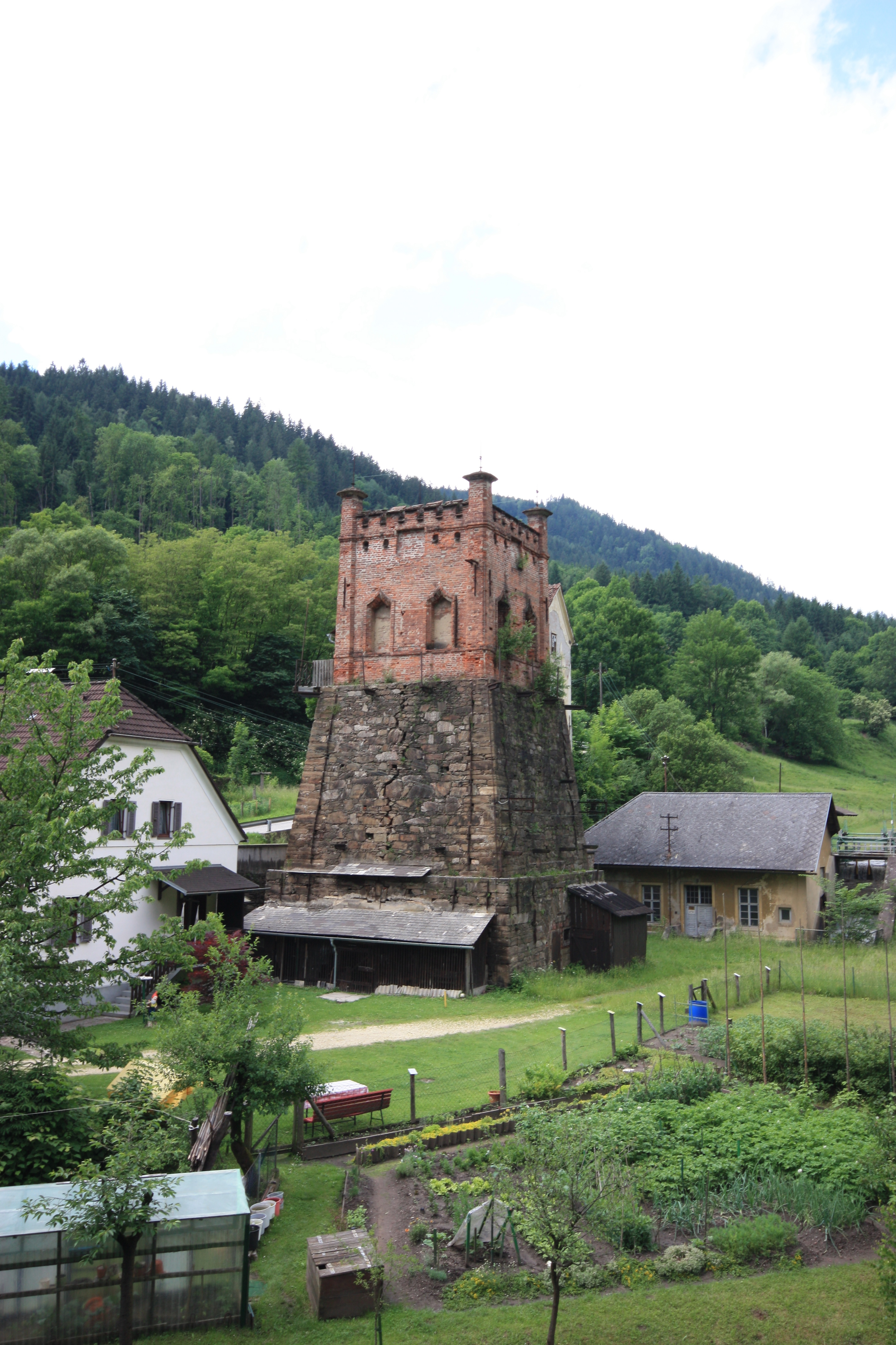 Historic blast furnace in Frantschach, Carinthia